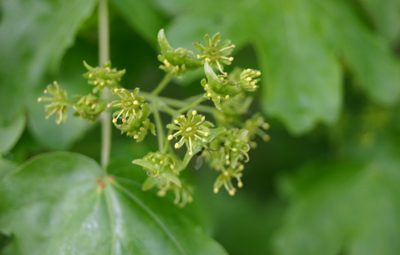 Acer campestre: Flowers